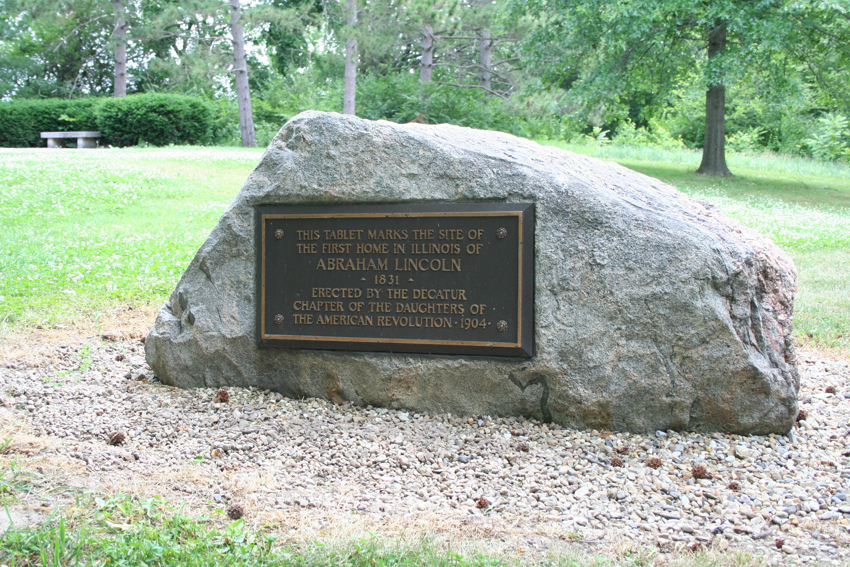 Lincoln_First_Home_in_Illinois_Tablet Lincoln Trail Homestead State Memorial